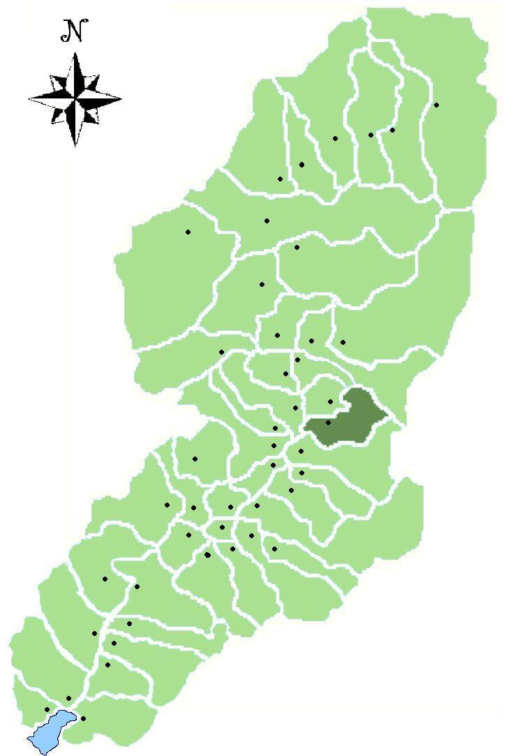 Map of the Comune di Cimbergo, Valle Camonica